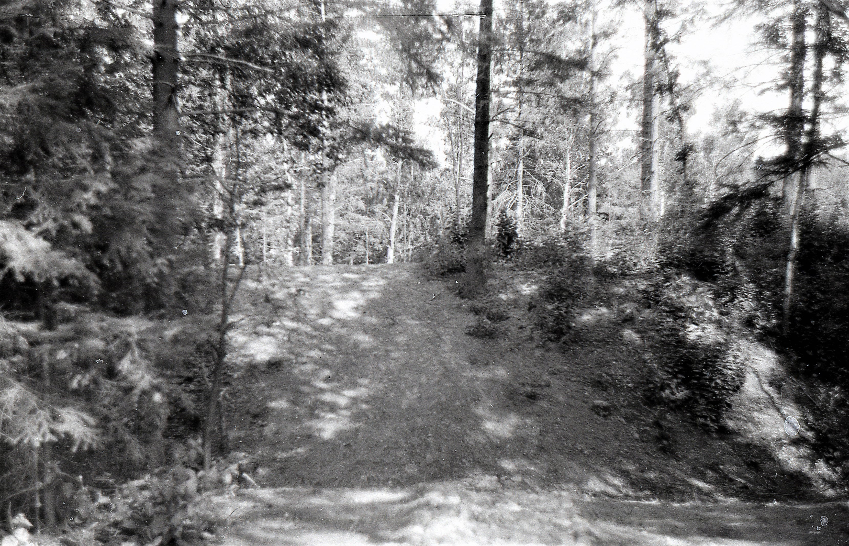 Kačaičiai hillfort, Kretinga district, Lithuania